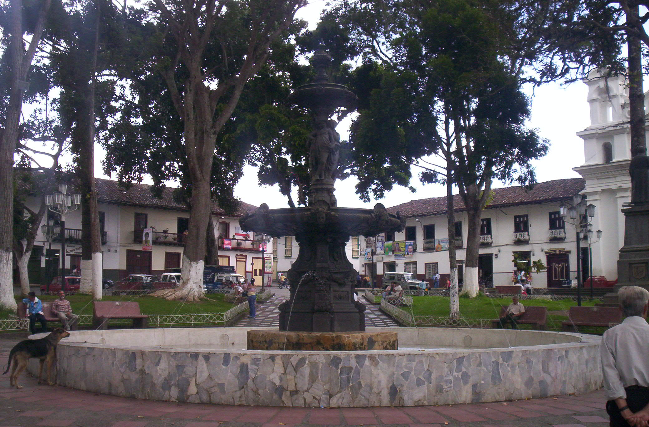 Salamina. Main Plaza with fountain, a National Monument, Caldas, Columbia.